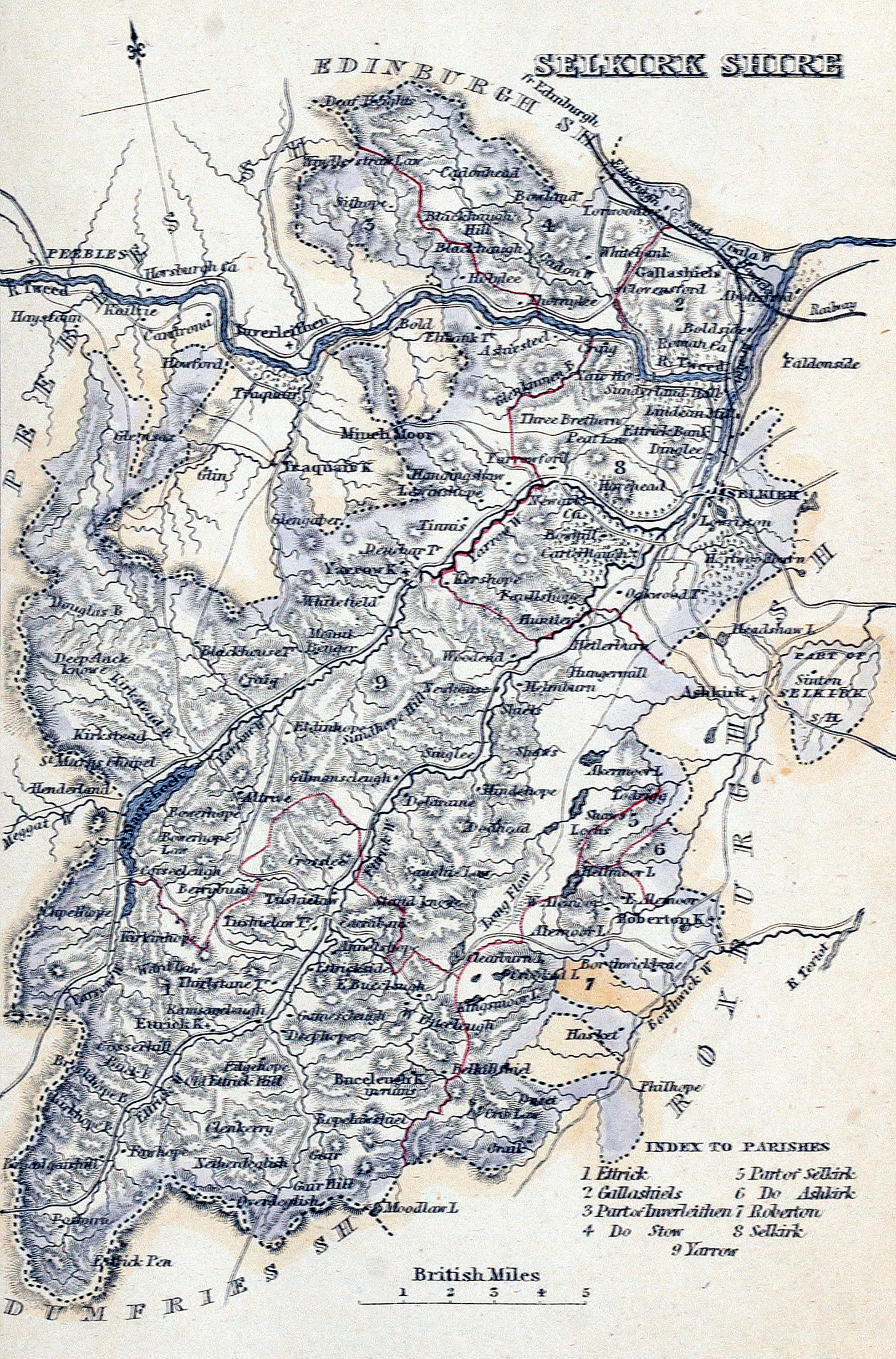 SELKIRKSHIRE Civil Parish Map. The Imperial gazetteer of Scotland. VOL.II. Edited by Rev. John Marius Wilson.